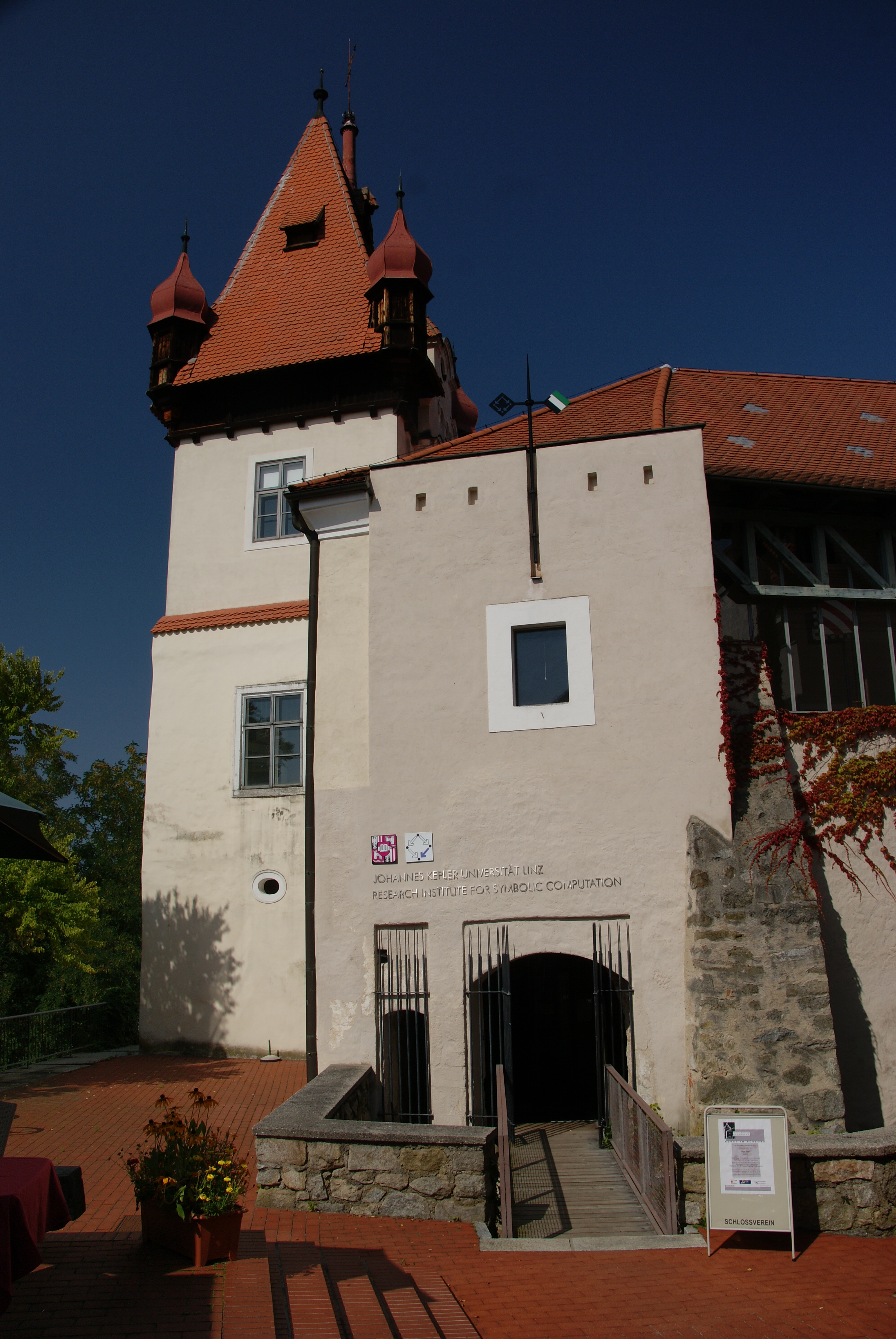 RISC in Chateau Hagenberg, Hagenberg im Mühlkreis, Upper Austria